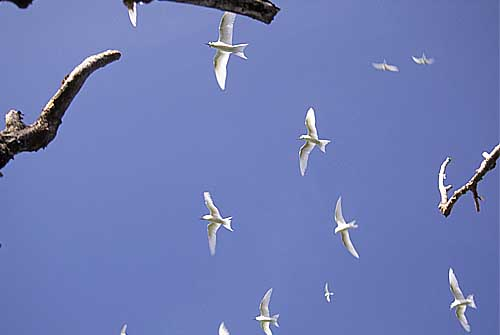 A flock of White Terns (Gygis alba) flies over Vostok Island, Line Islands, Kiribati.